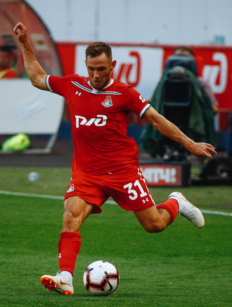 Maciej Rybus